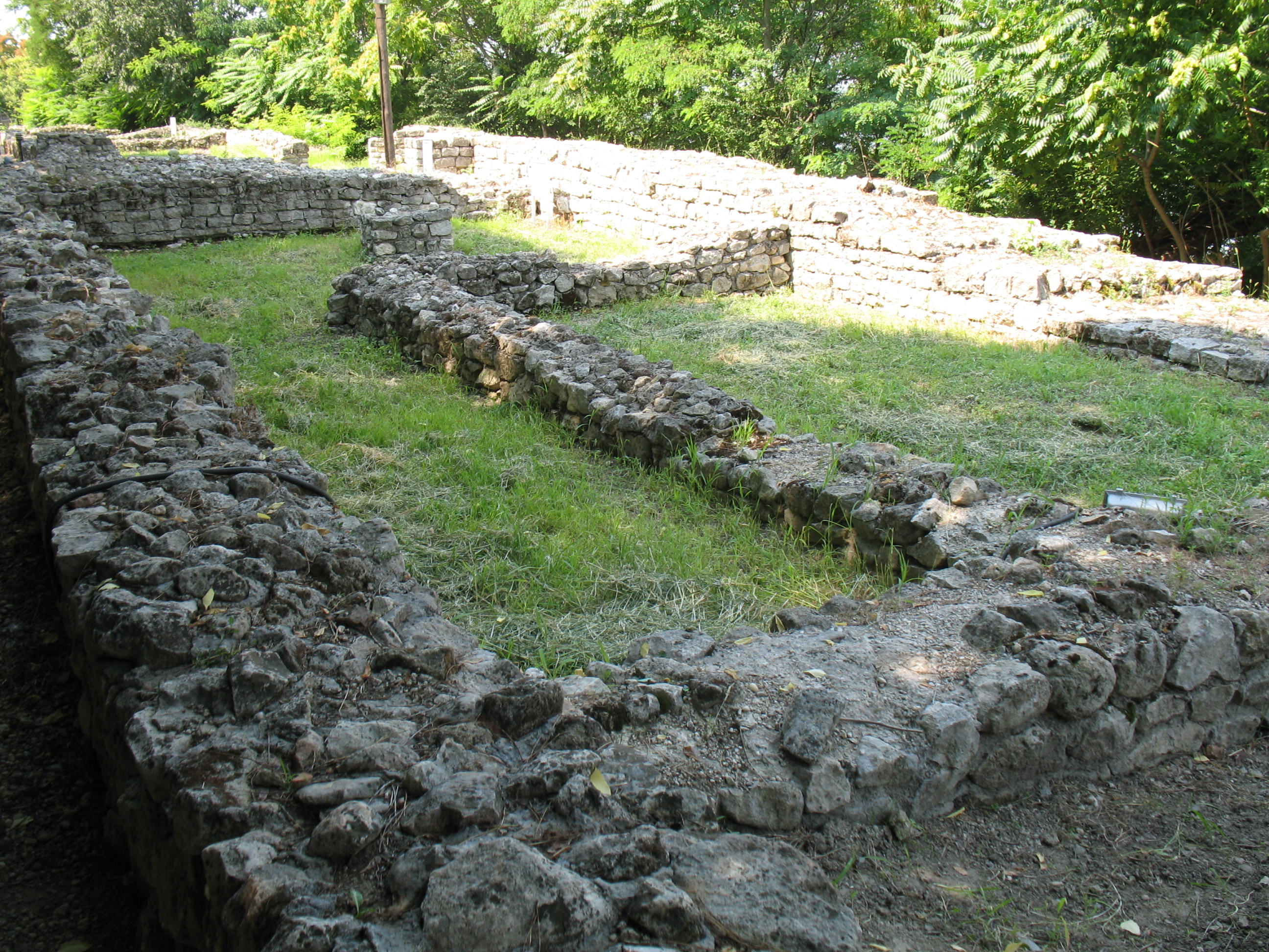 Roman wall in Sexaginta Prista fortress near Rousse, Bulgaria.